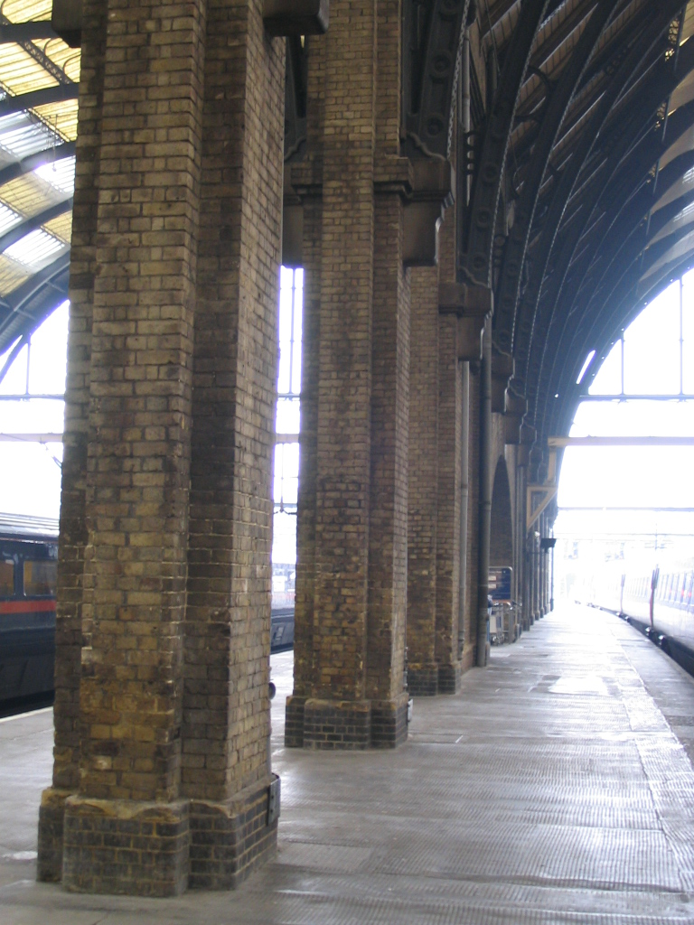 Platform 4 and 5 used in HP films as platform 9 and 10.